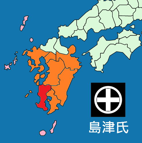 Map of Shimazu clan 1586